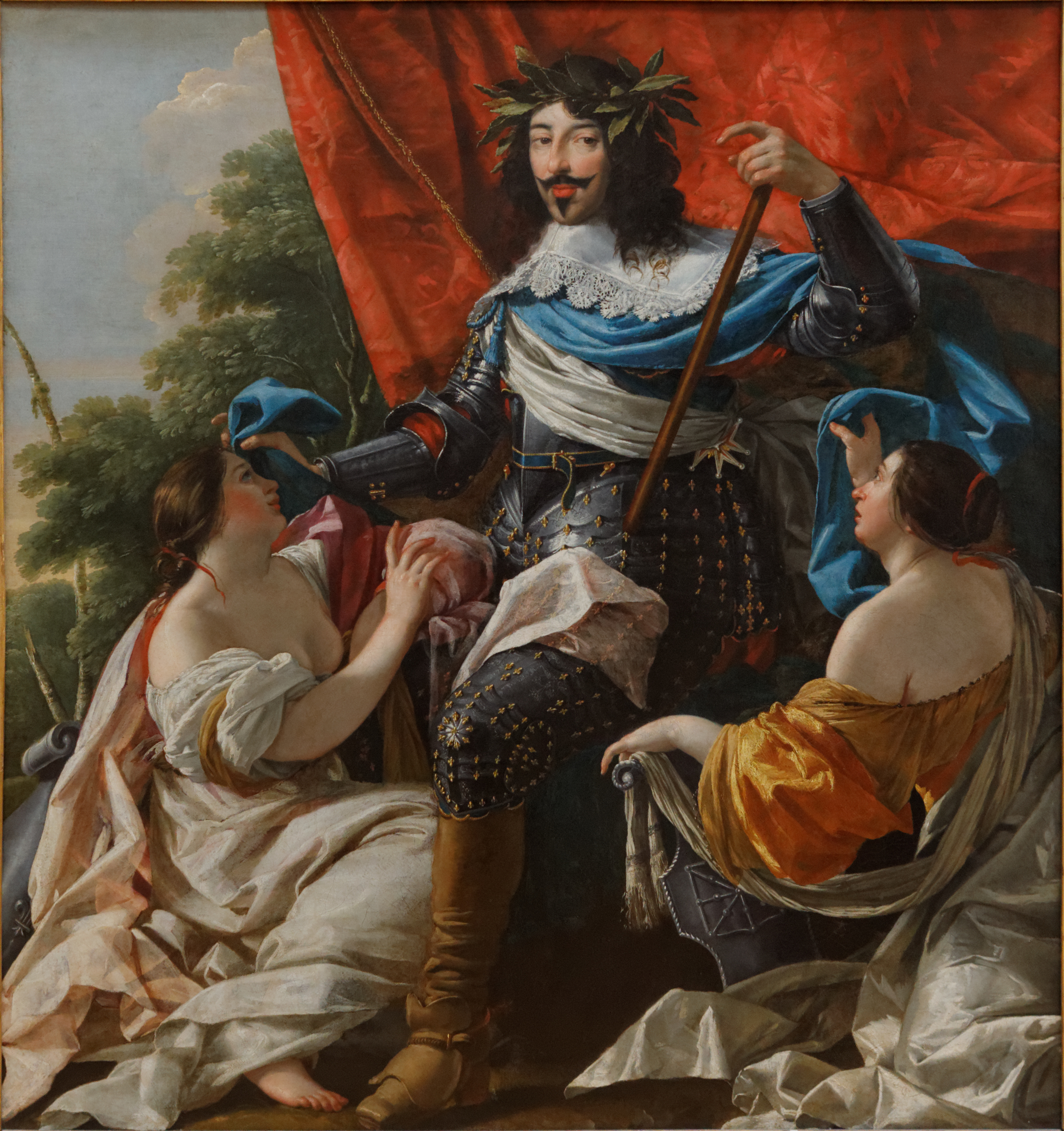 Louis XIII between two female figures symbolizing France and Navarre